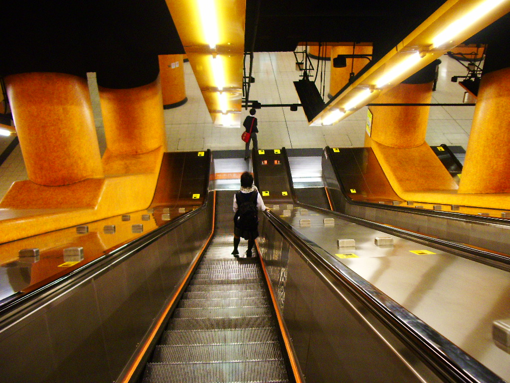 Sai Wan Ho Station